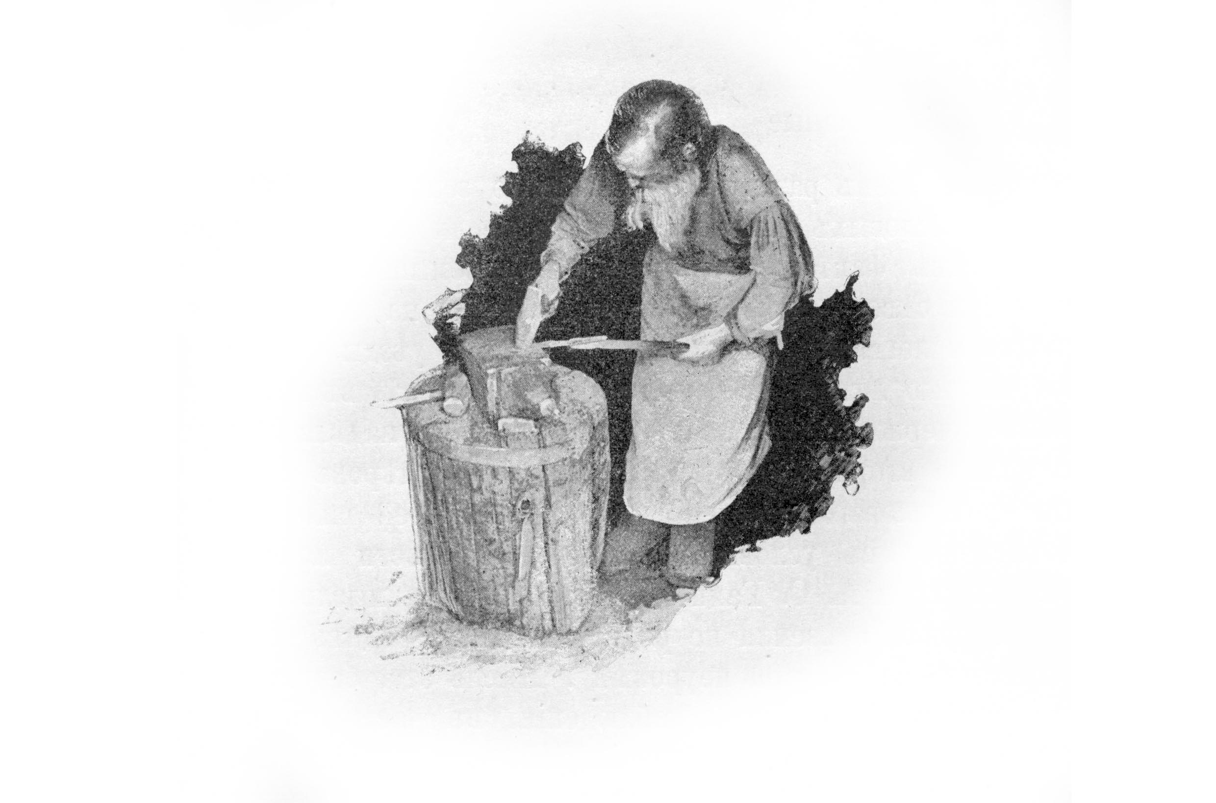 Handicraft Industry and Trades of Nizhegorodskaja gubernija